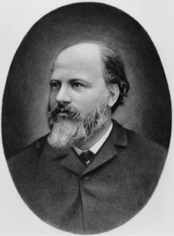 Tommy Fallot (4 October 1844 – 3 September 1904) was a French pastor who is known as the founder of Social Christianity in France.